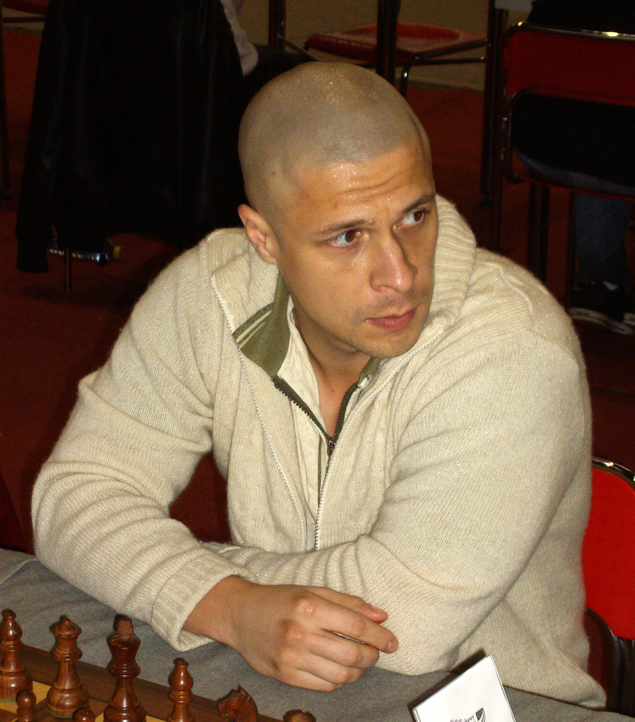 GM Vasily Yemelin Russia, IV International Chess Tournament "KS Polonia Wrocław" 2009